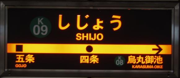 Kyoto City Subway Shijo Station signboard